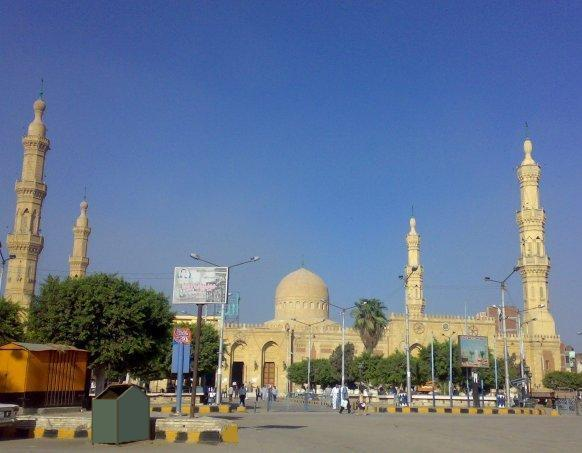 Saint Ibrahim El-Desouki Mosque